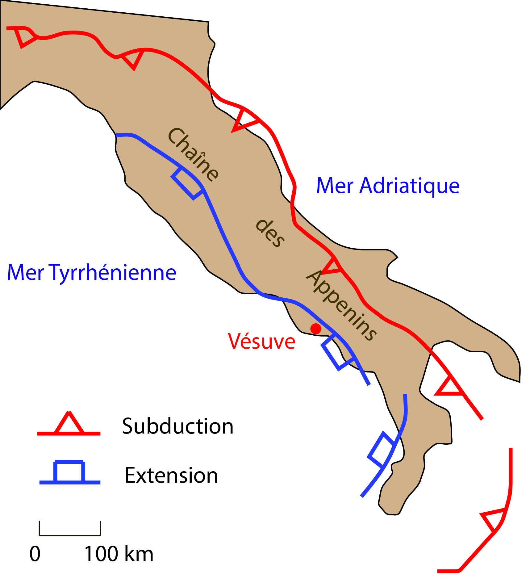 Presents the situation of Vesuvius volcano, in the complex tectonic configuration of Italy. Shows the extensive origin of volcanism rather than a subduction origin (Ref : Lavecchia et al. 2003. Some aspects of the Italian geology not fitting with a subduction scenario. Journal of the Virtual Explorer 10, 1-14)